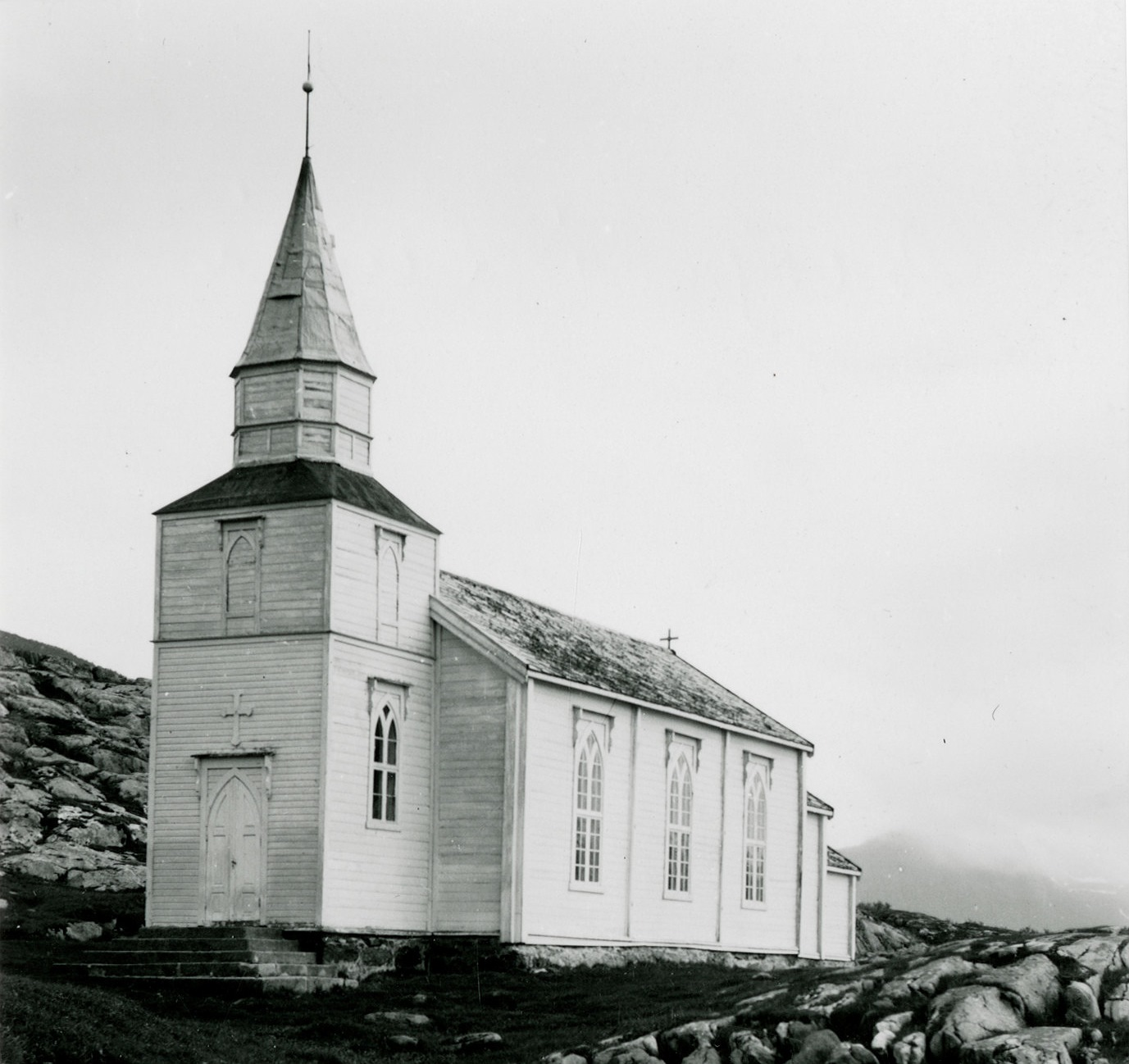 Berg kirke, revet av tyskerne i 1942